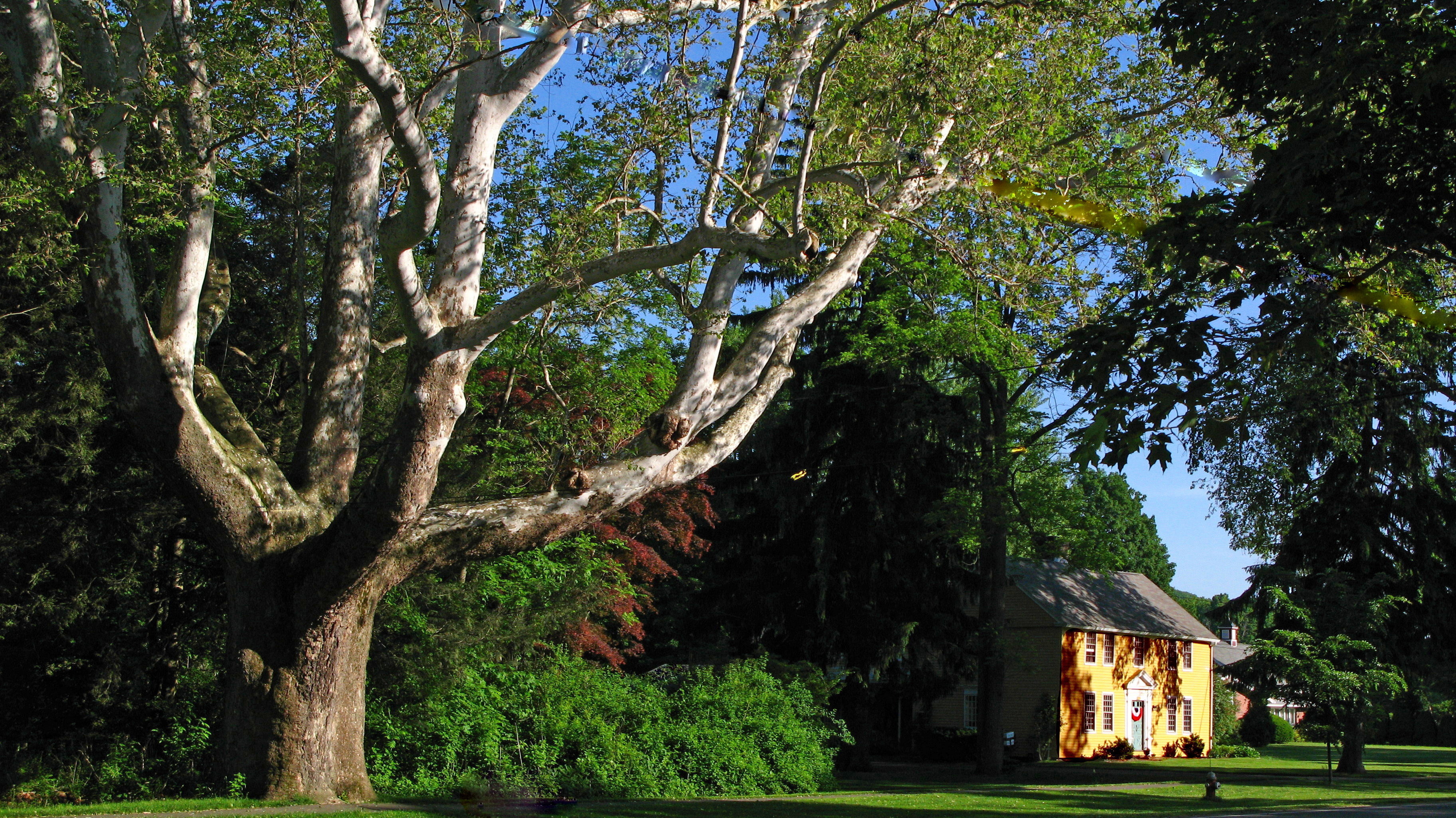 The Buttonball Tree is an American sycamore (Platanus occidentalis) located in Sunderland, Massachusetts and estimated to be over 350 years old.